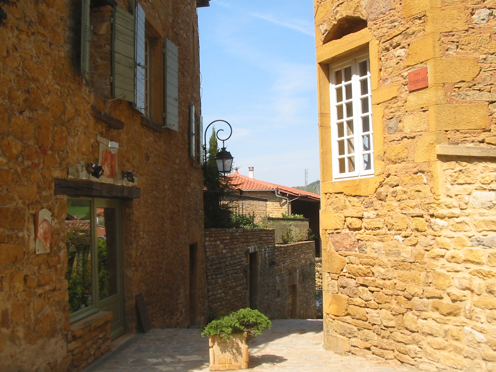 Picture by Barbara Walter. The Trayne-Cul Street in the french village Oingt, Beaujolais.